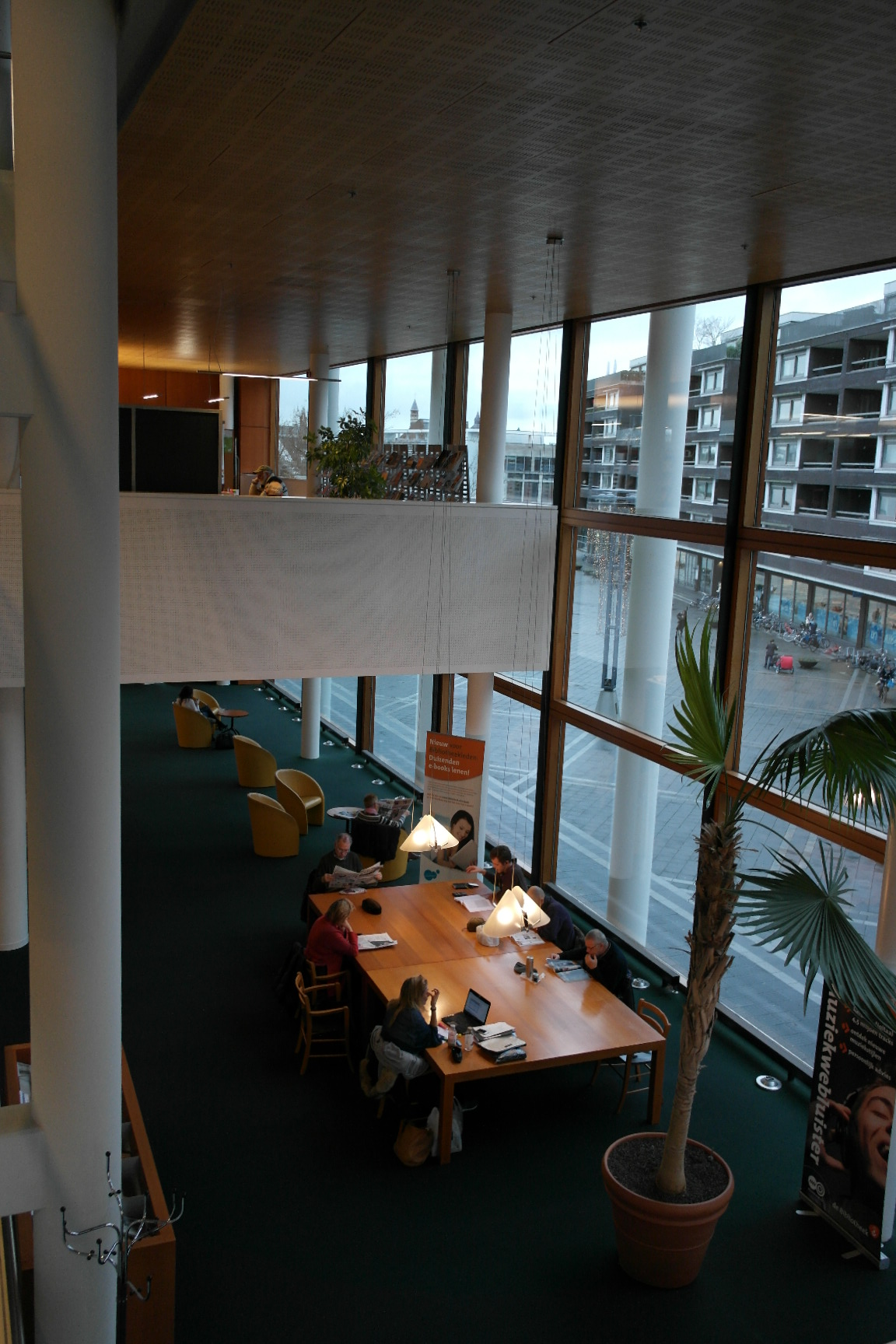 Maastricht, the Netherlands. View of the reading table at the mezzanine level in Centre Céramique.